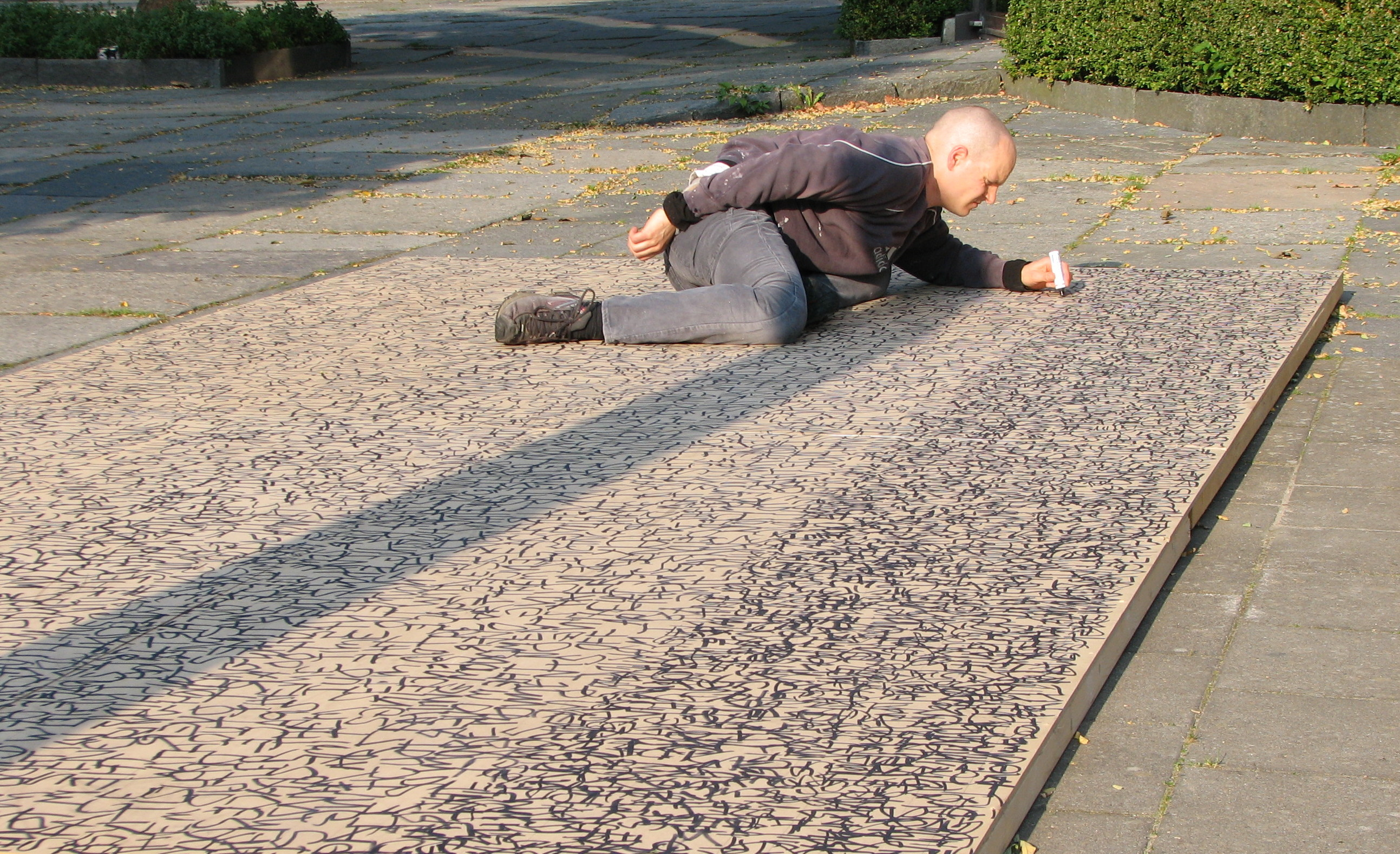 Performance art by (and with) John Court at the performance festival Live Action Gothenburg in Sweden 2006.